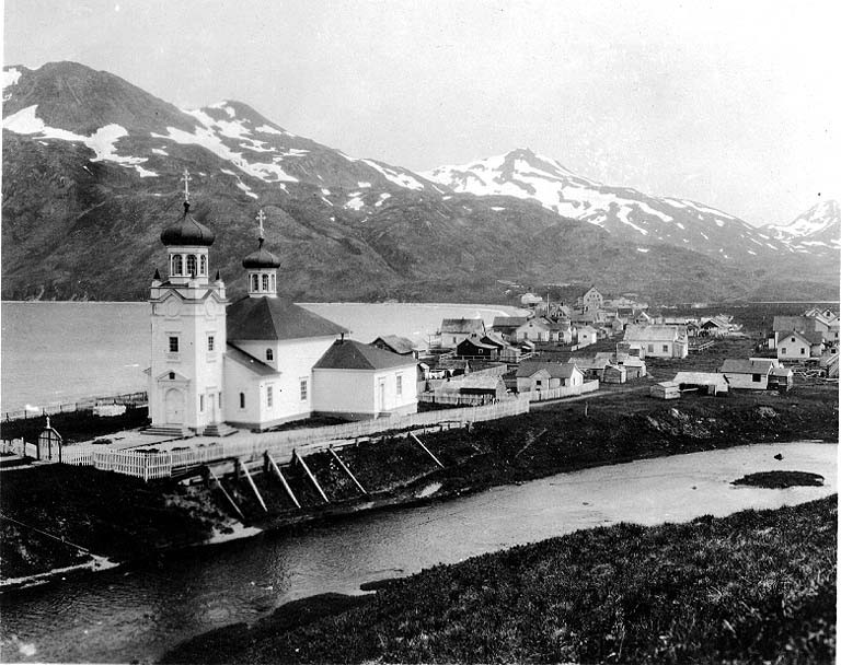 From John Cobb field notebook: Russian church, Unalaska, Alaska. June 1906 Subjects (LCTGM): Orthodox churches--Alaska--Unalaska Subjects (LCSH): Orthodox Eastern church buildings--Alaska--Unalaska; Russian Orthodox Greek Catholic Church of America